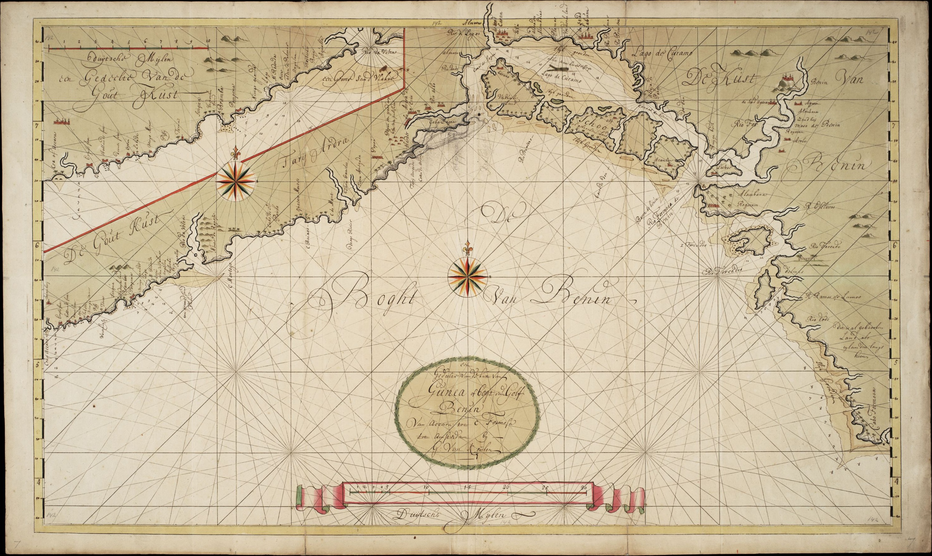 Map of the Benin Bend, with an inset showing part of the Gold Coast